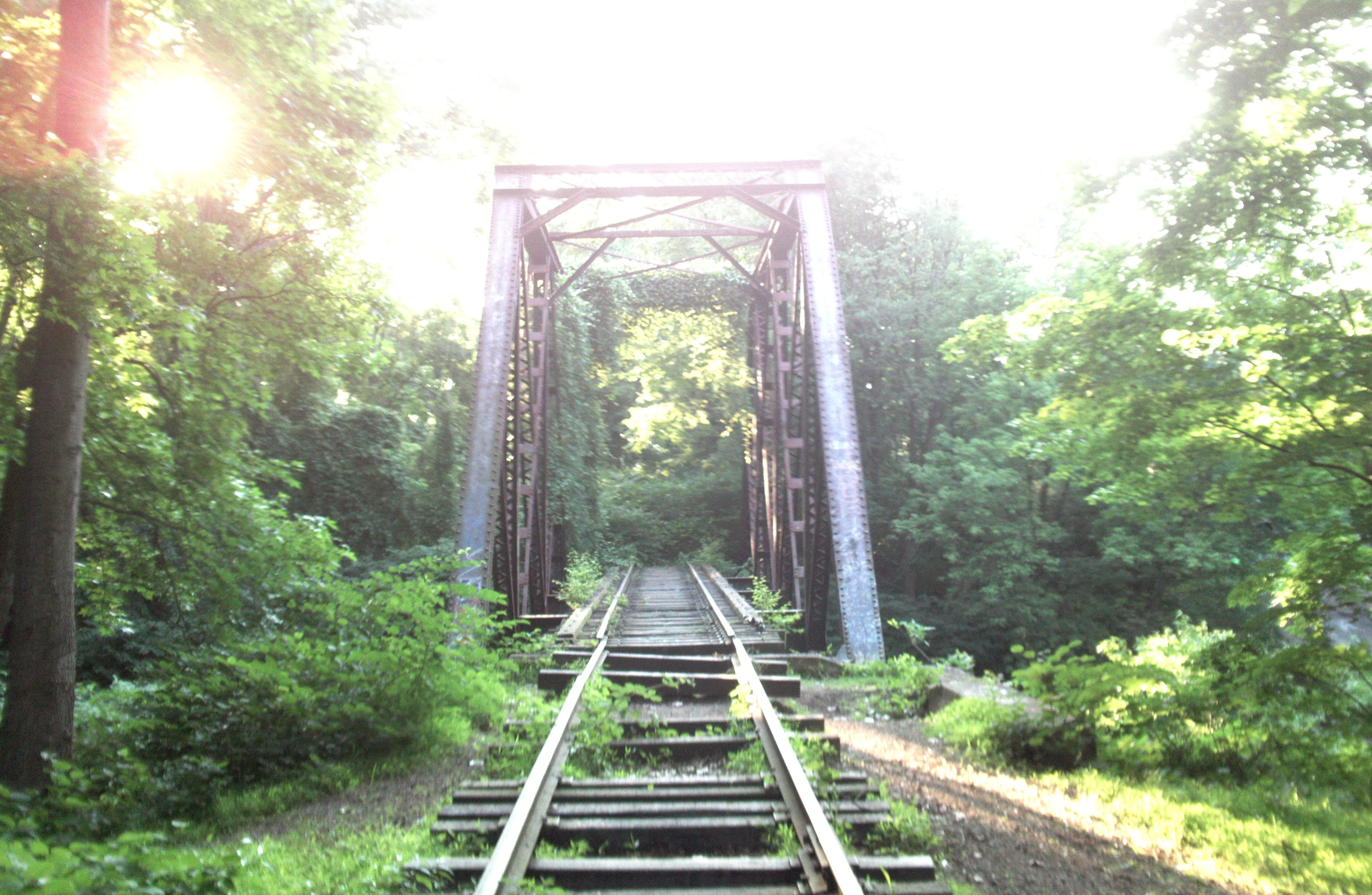 Rahway Valley Railroad bridge over the Rahway River. Looking north west towards Springfield, New Jersey.